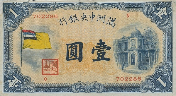 A banknote issued for circulation within the Empire of Manchuria (also known as Manchukuo). Manchukuo was a Japanese puppet state in what is today northeastern China and was ruled by the former Emperor of the Manchu Qing Dynasty, Manchukuo was invaded by Soviet forces near the end of the second world war and fell in 1945.